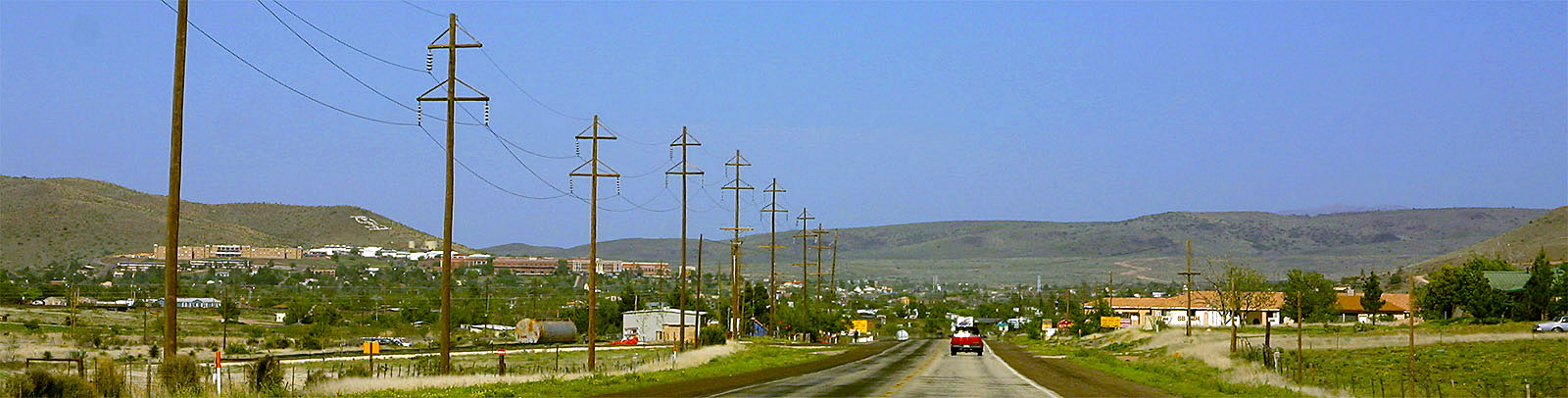 Alpine, Texas